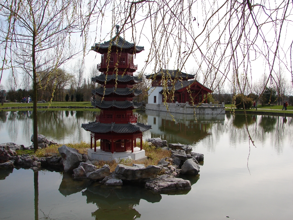 chinese garden in Erholungspark Marzahn